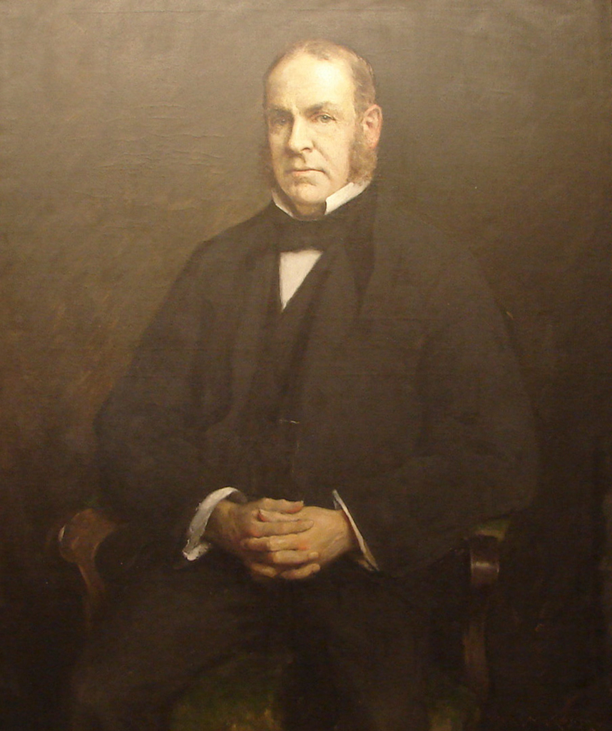 Portrait of James E. Rhoads, M.D.